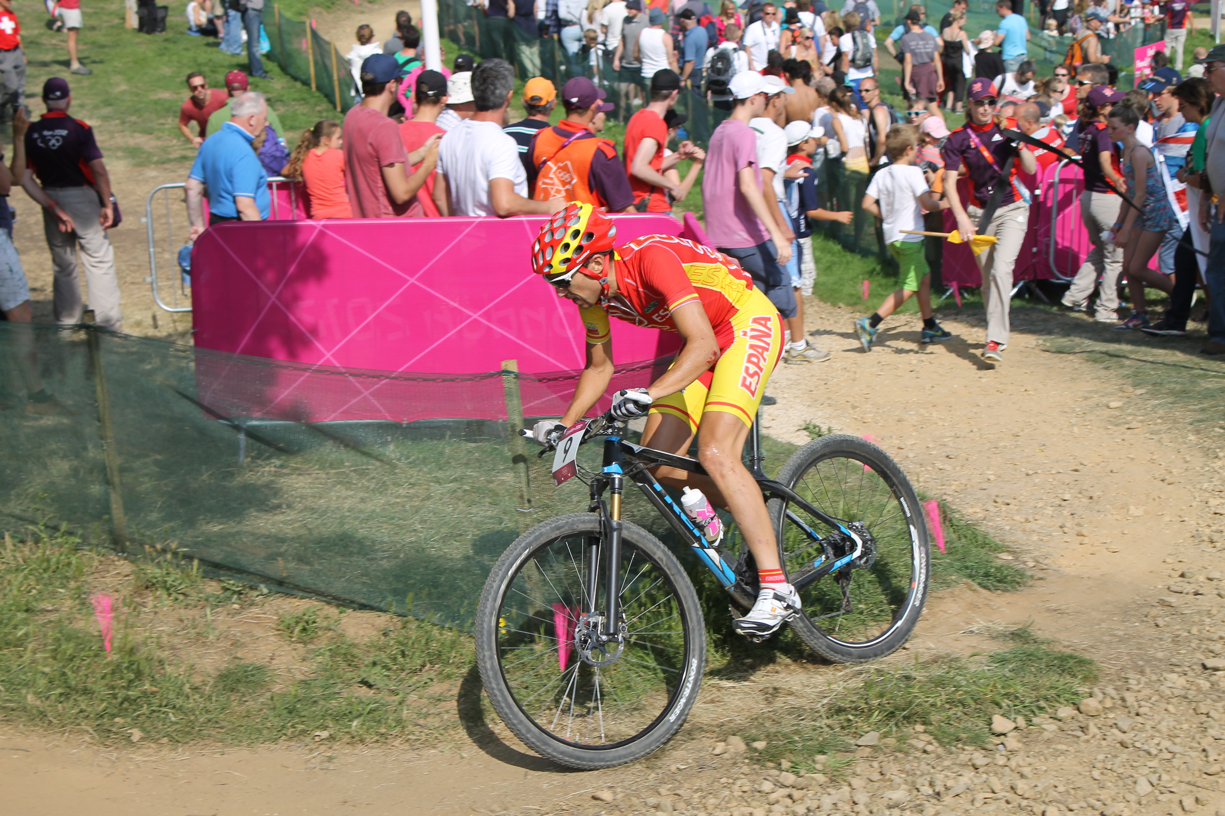 Cycling at the 2012 Summer Olympics – Men's cross-country Sergio Mantecón Gutiérrez (9) (ESP) IMG_4316